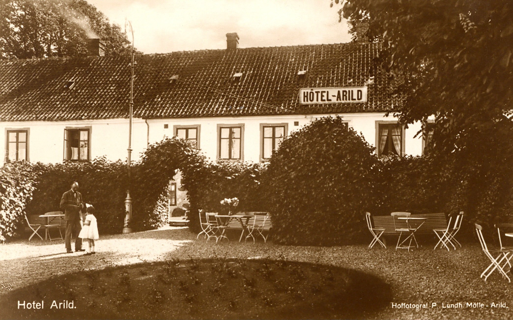 Hotel Arild in Arild, Sweden